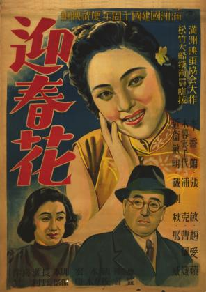 A poster of winter jasmine produced by Manchukuo Film Association.